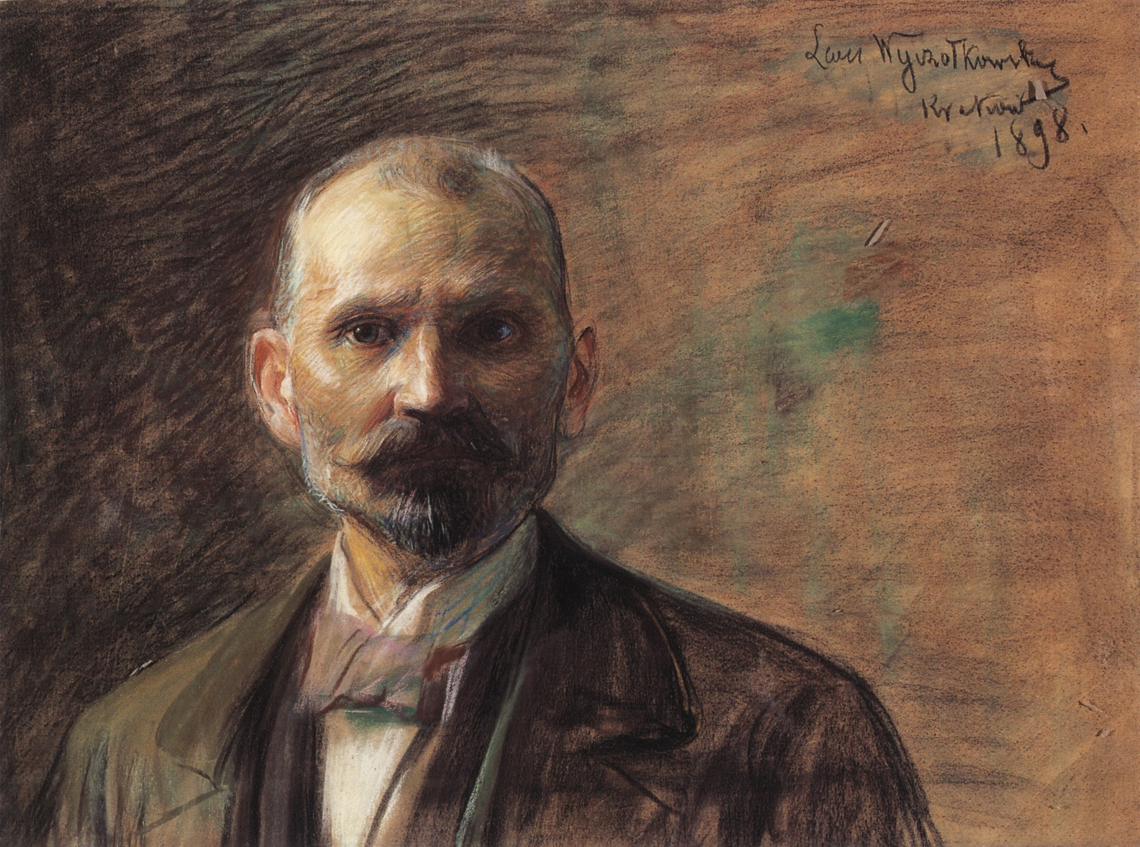 Self-Portrait of Leon Wyczółkowski (1852-1936), pastel on paper glued to canvas, 53x71, Lviv Art Gallery